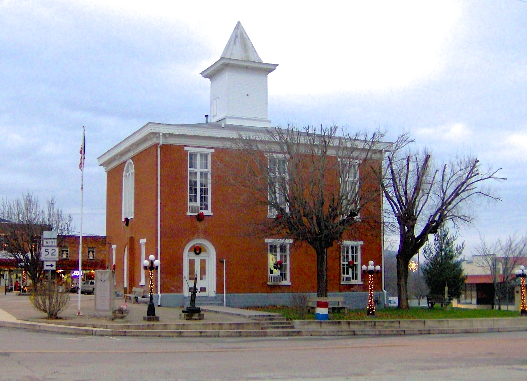 The Clay County Courthouse in Celina, Tennessee, located in the Southeastern United States.